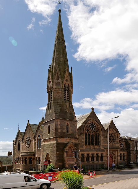 McCheyne Memorial Church, Perth Road, Dundee